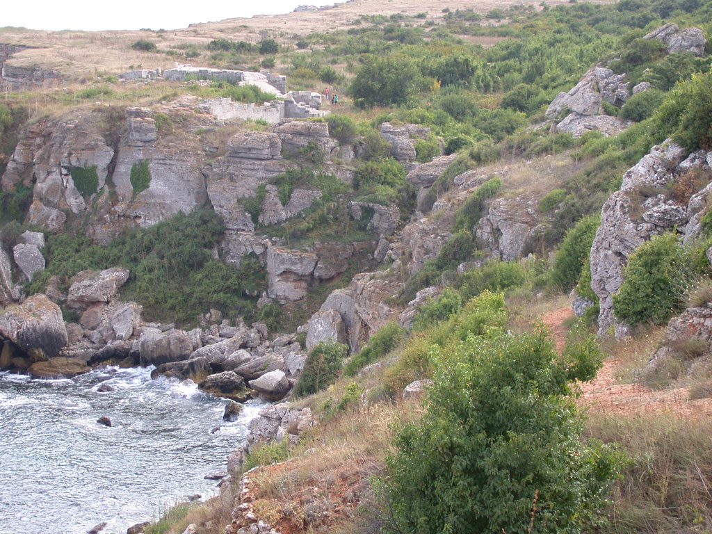 Yaylata National Archaeological Reserve on the Bulgarian Black Sea coast